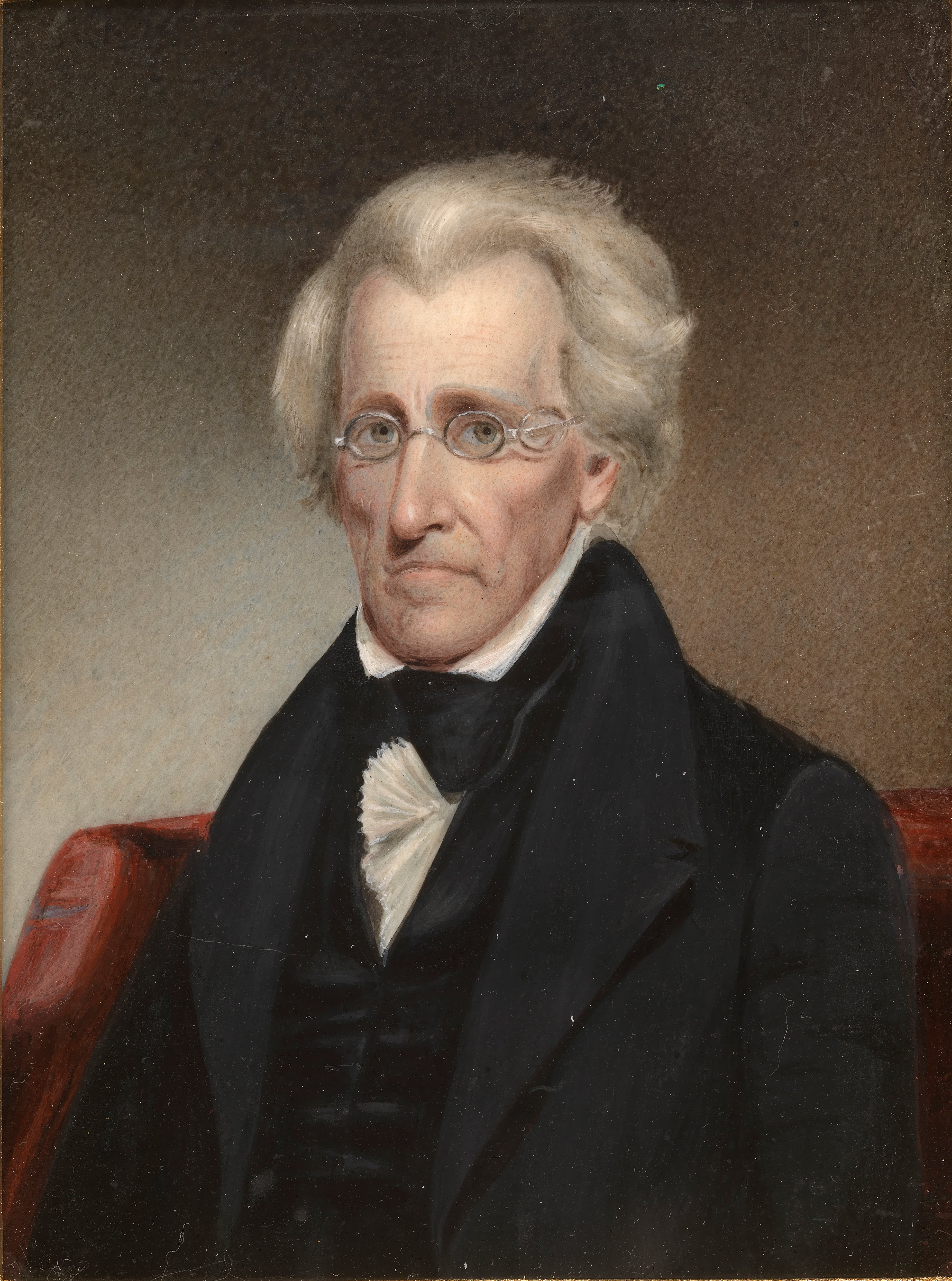 Portrait of Andrew Jackson (1767-1845)